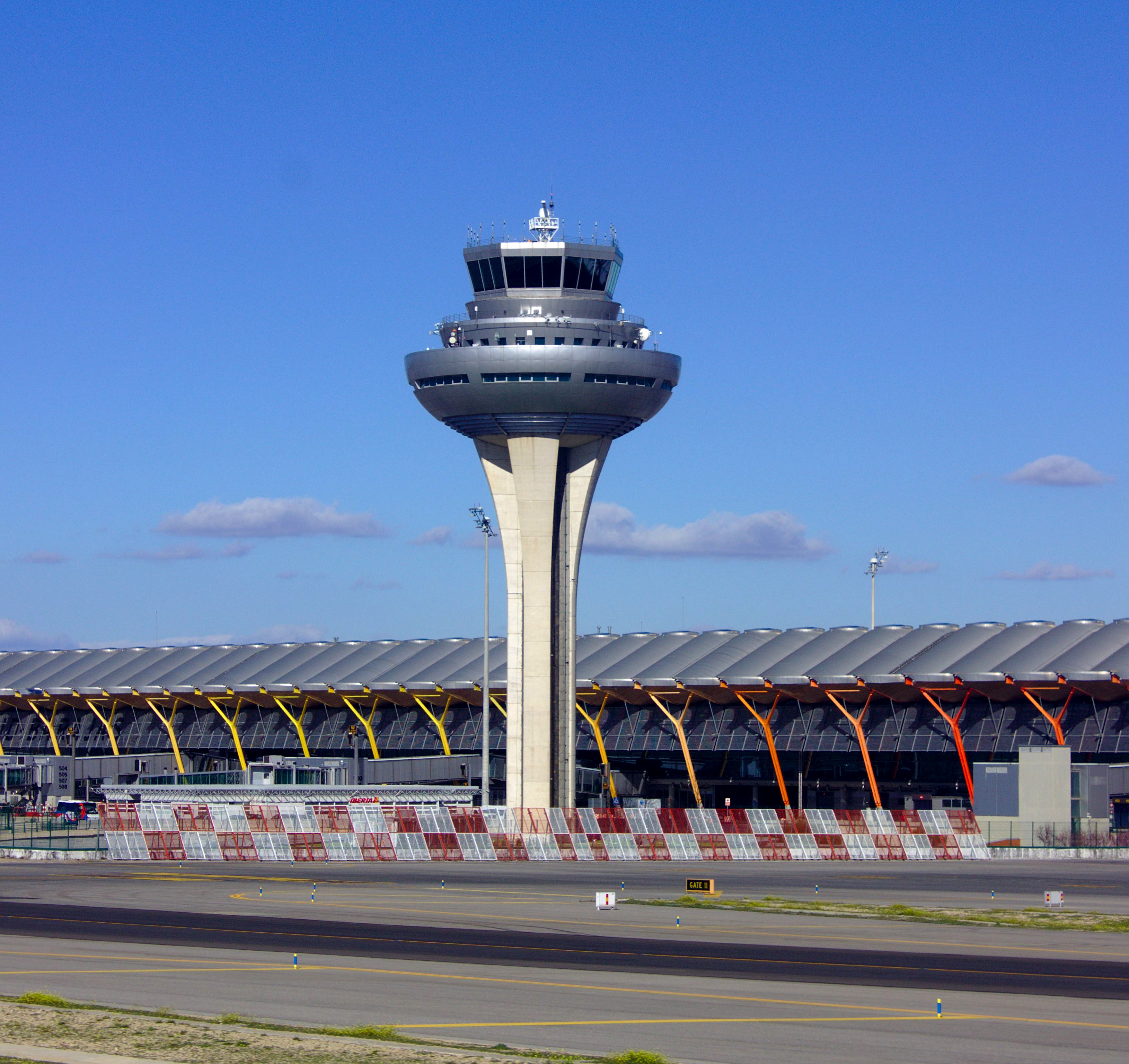 Control tower of Madrid-Barajas Airport, Spain.